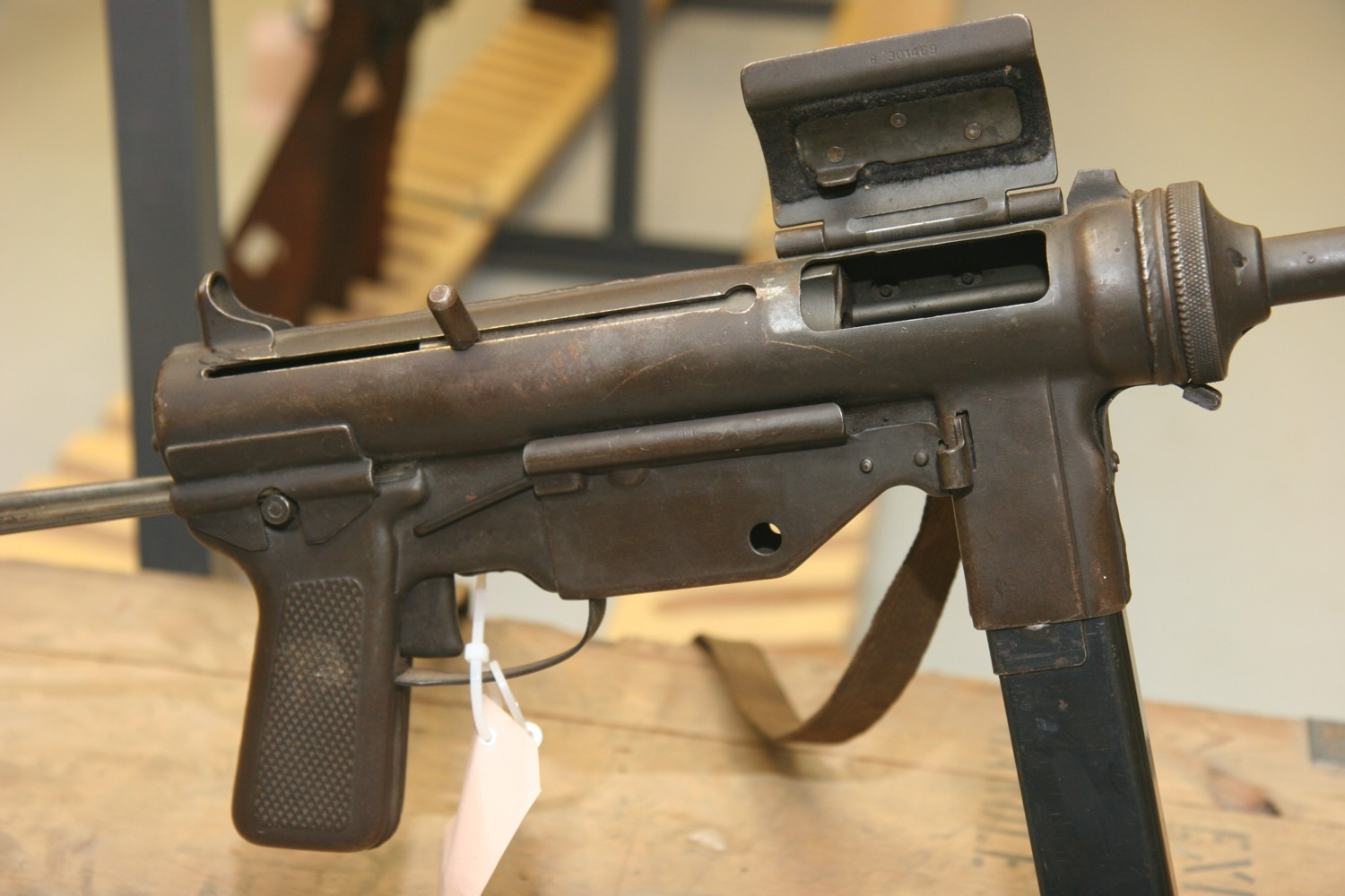 Field modified Guide Lamp M3 submachine gun in the collection of Musée National d'Histoire Militaire (The National Museum of Military History) in Diekirch, Luxembourg.